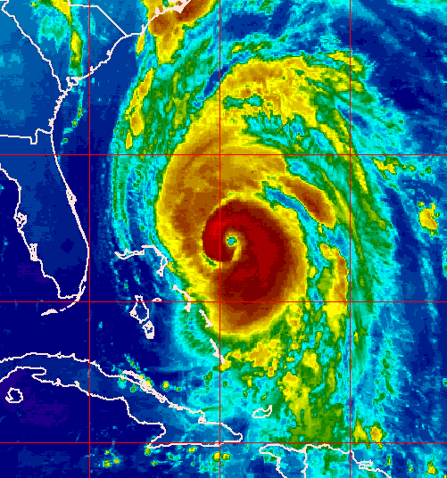 Colorized infrared image of Hurricane Fran near peak intensity east of the northern Bahamas and Florida. (Converted to PNG via imagemagick).